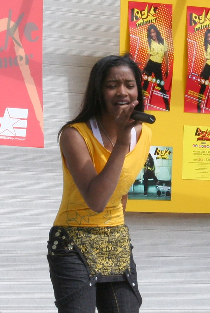 Teen actress-singer KeKe Palmer performs a free show March 9, 2008, in the south parking lot of the Keesler Air Force base exchange. She signed autographs following the show. She starred in Akeelah and the Bee and had roles in BarberShop 2, Strong Medicine, Cold Case, ER, Law and Order SVU, The Wool Cap, Madea’s Family Reunion and Knights of the South Bronx. She has a recording contract with Atlantic Records.